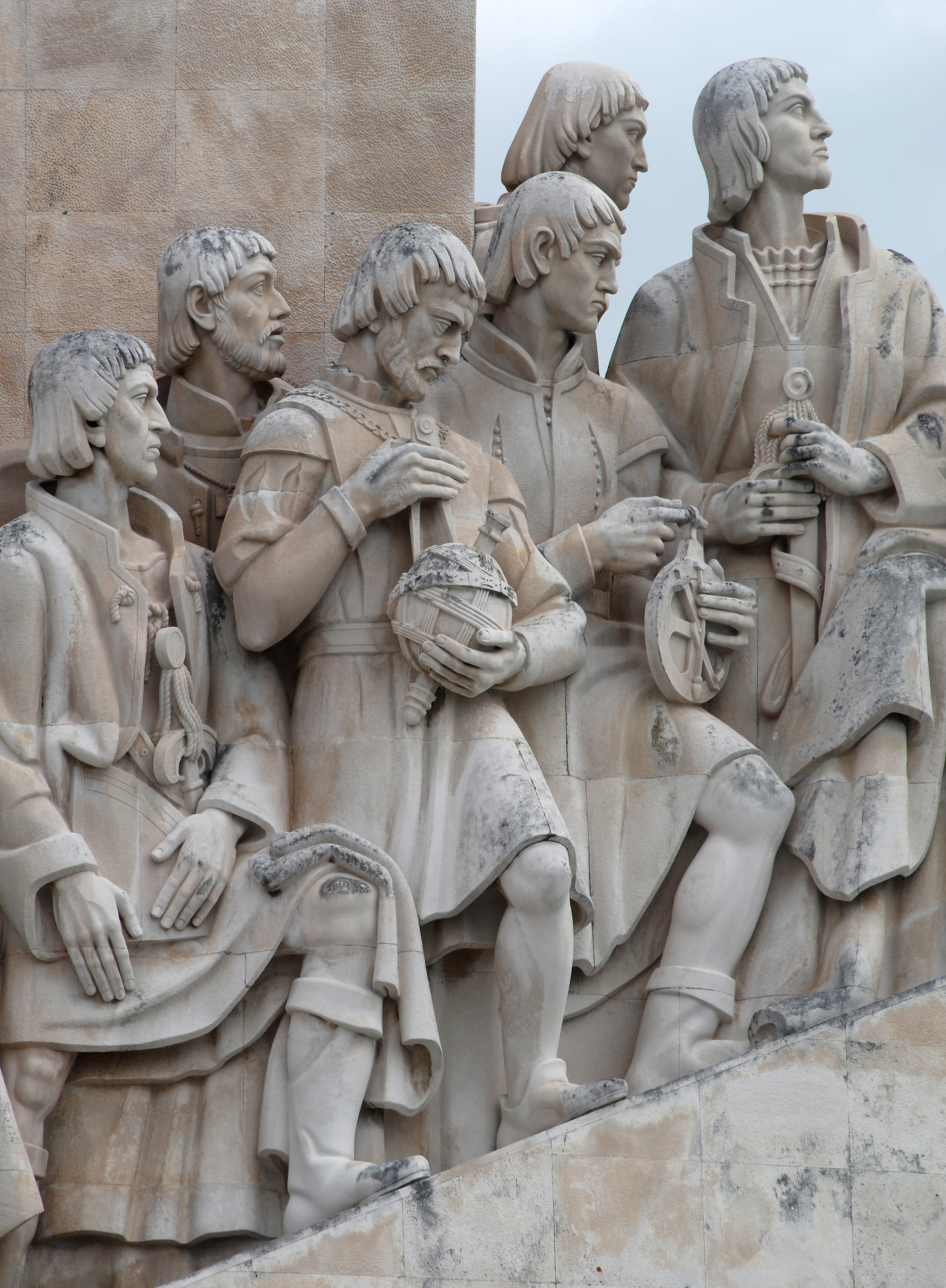 Detail of the Monument to the Portuguese Discoveries showing the mathematician and cosmographer Pedro Nunes with an armillary sphere. To his left, Jácome de Maiorca (cosmographer and chart maker) and Pero Escobar (navigator); to his right, Pêro de Alenquer (navigator), Gil Eanes (navigator) and João Gonçalves Zarco (navigator). The monument was built in 1960 and was conceived by Cottinelli Telmo (architecture) and Leopoldo de Almeida (sculptures)